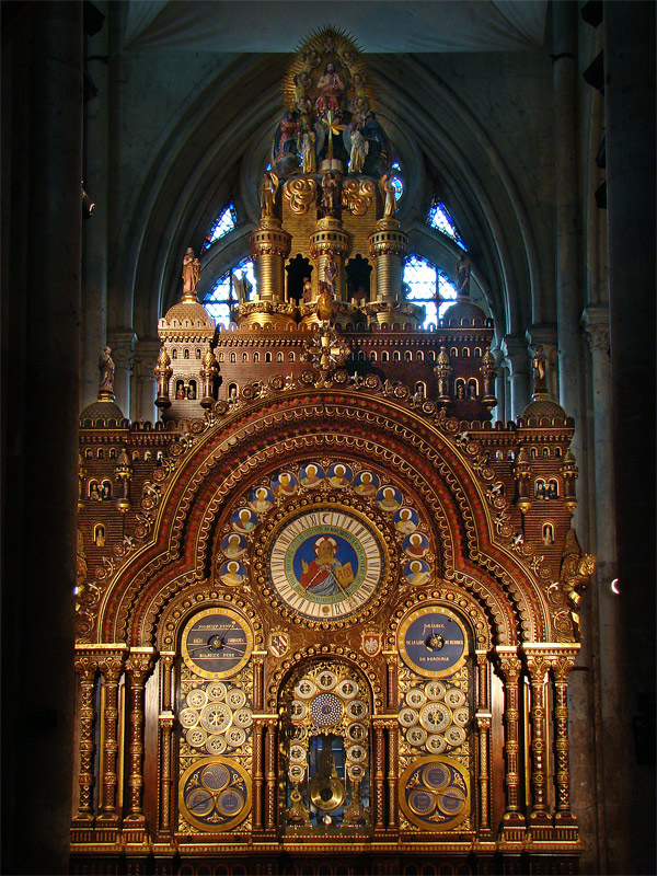 Beauvais Cathedral, Oise, Picardie, France. Astronomical clock.